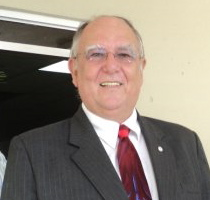 Joseph O. Prewitt Diaz at his 50th High School Class Party in his hometown Cayey, Puerto Rico.